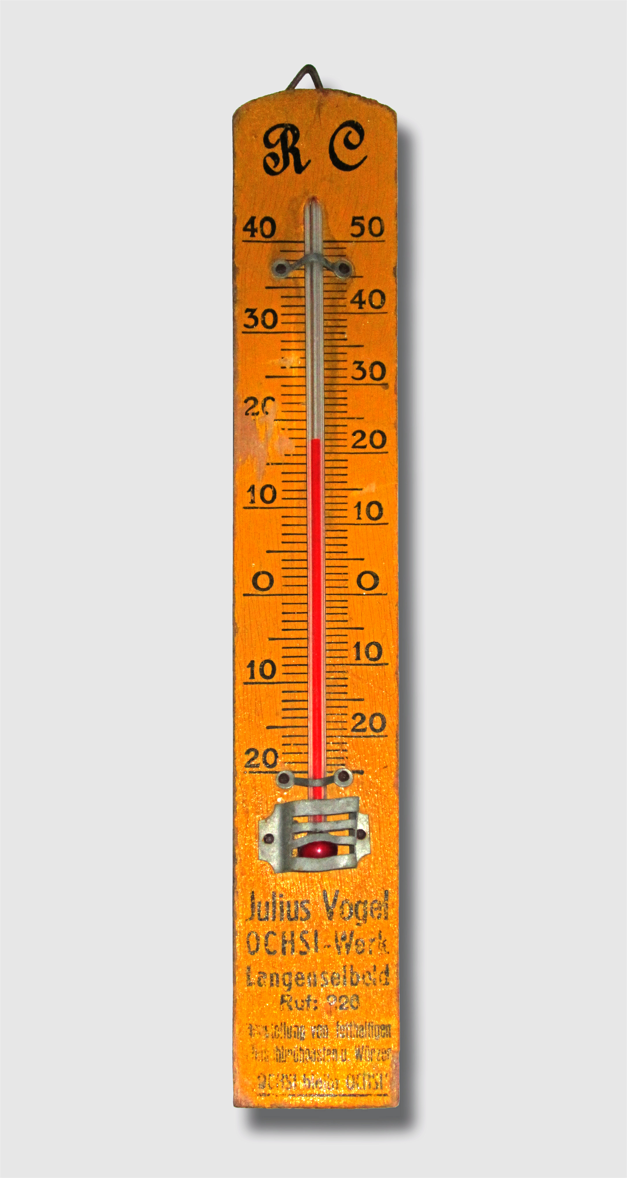 Old thermometer with both Réaumur scale and Centigrade scale markings. Manufactured in Langenselbold, Germany. Photo taken in England.